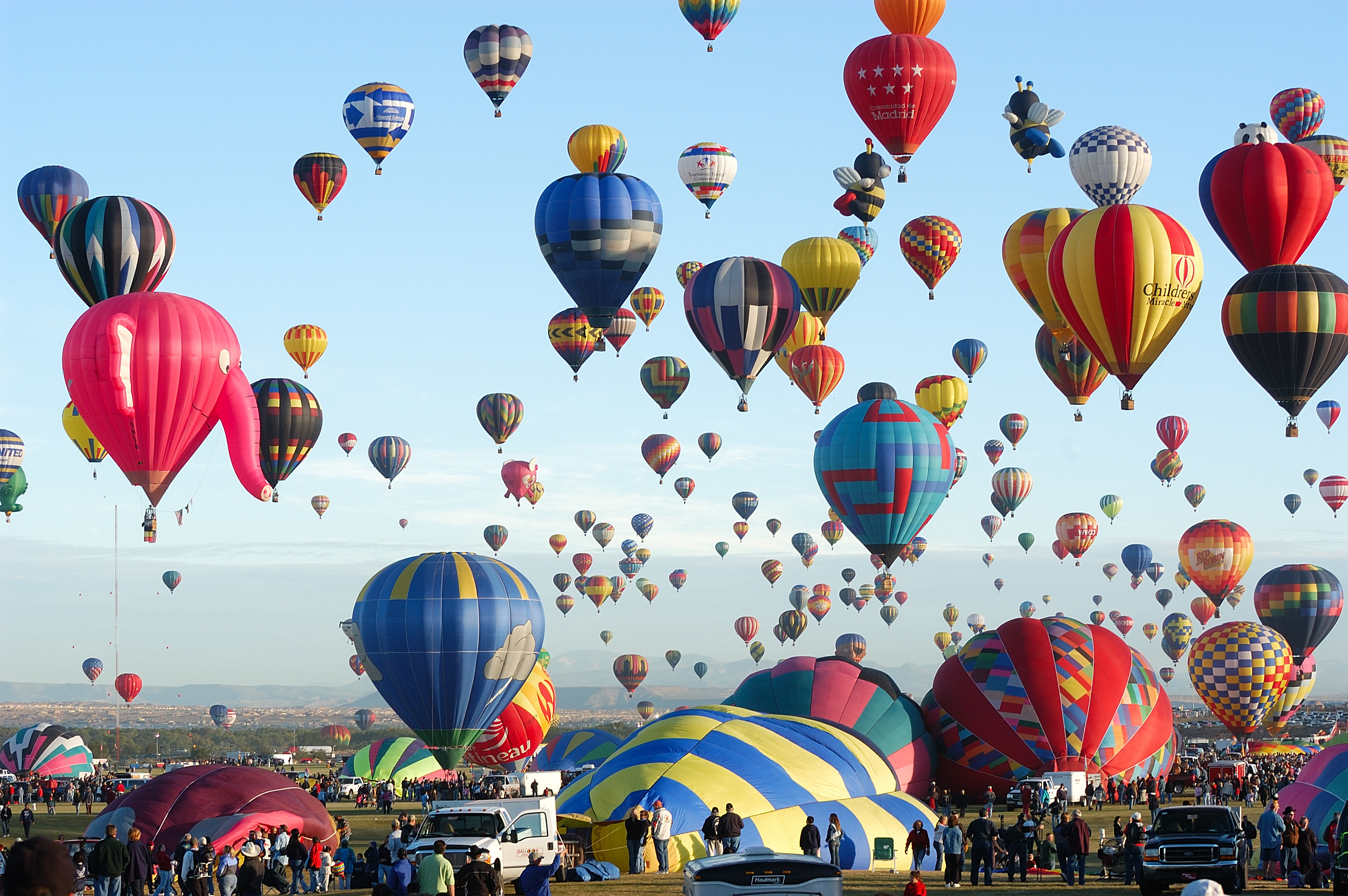 Mass ascension at Albuquerque International Balloon Fiesta 2007